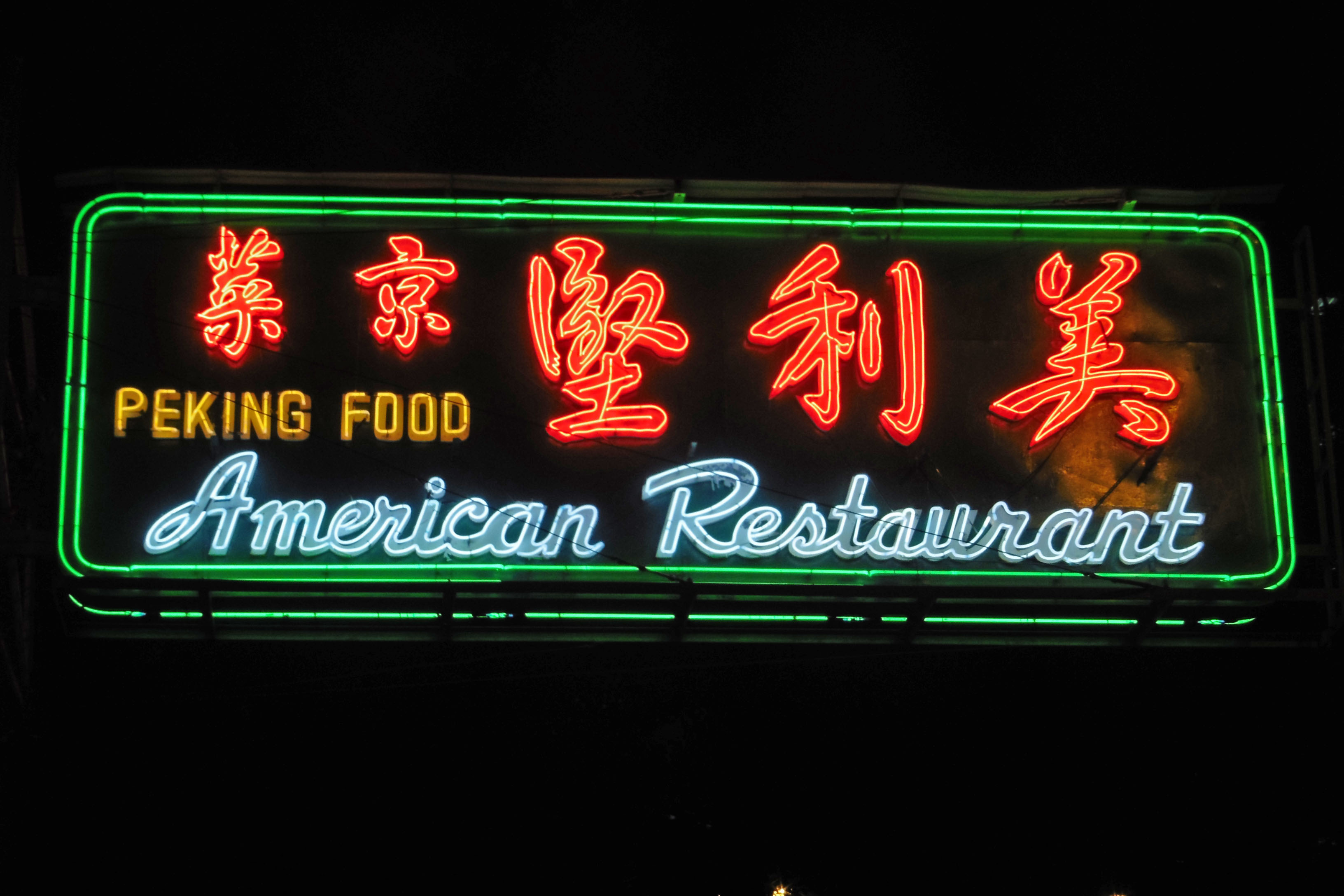 American Restaurant (20 Lockhart Road, Wan Chai)